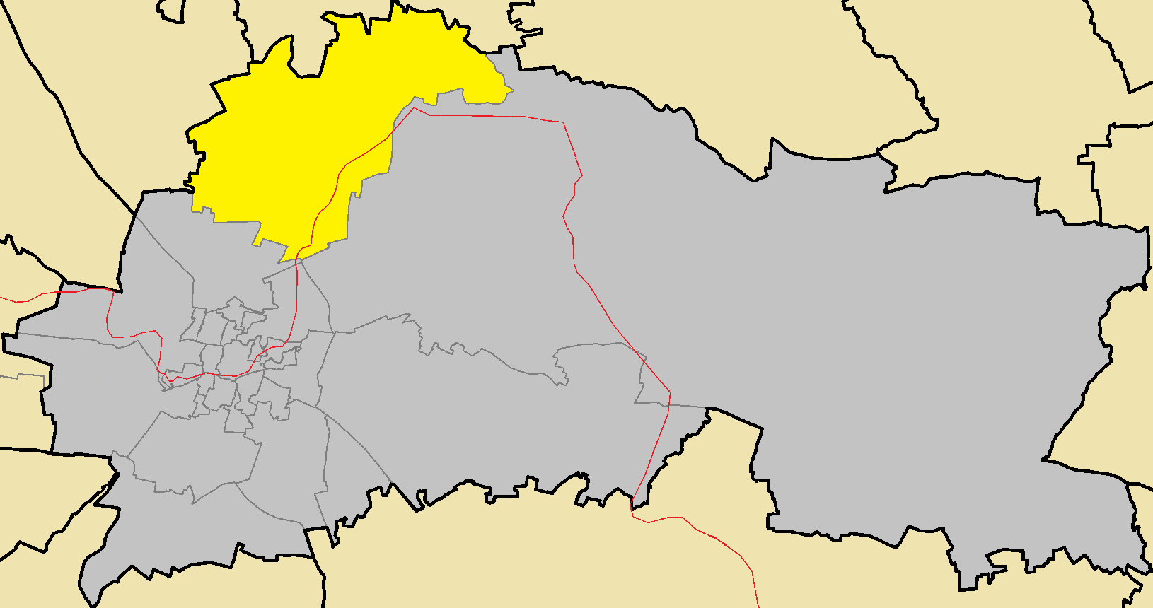 Omorfita in Nicosia Municipality (de jure).